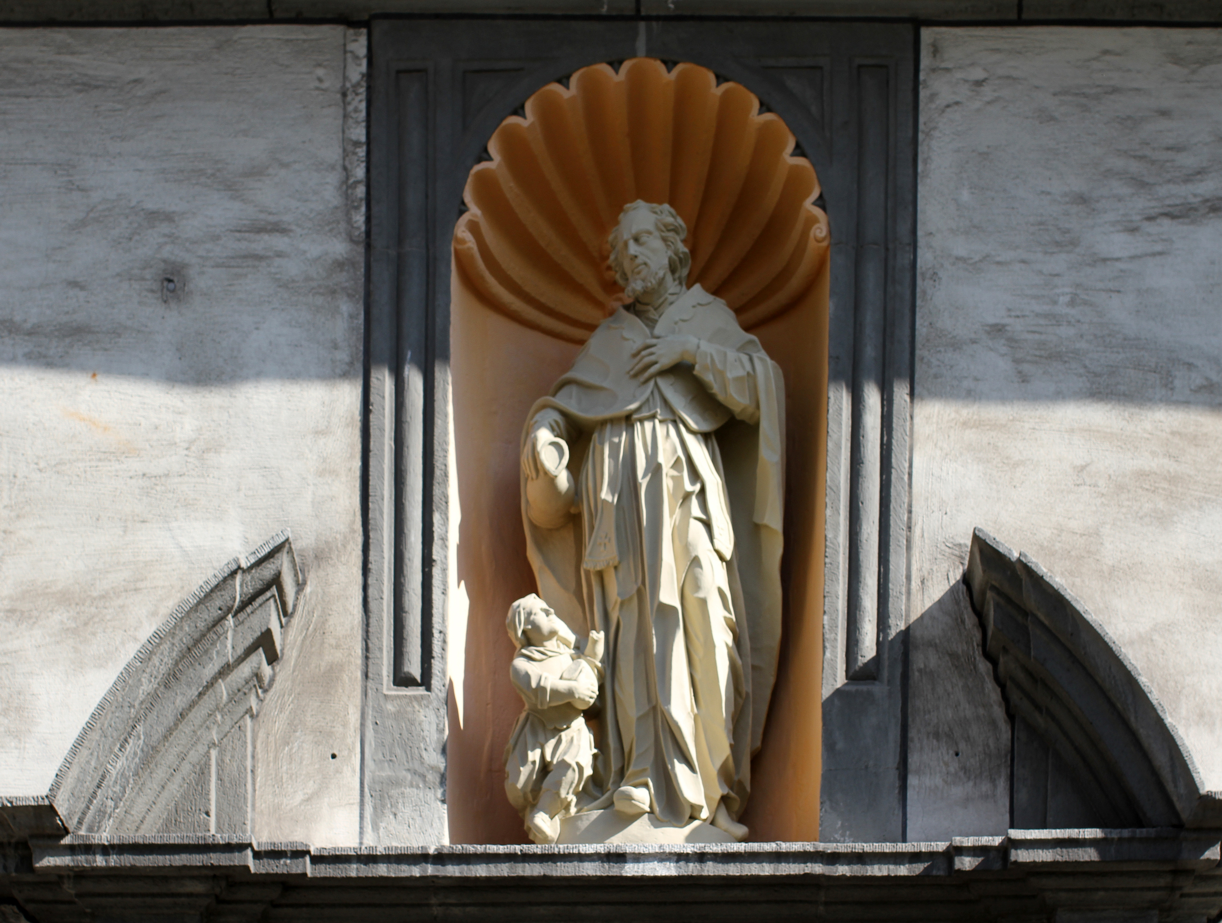 Florinskirche Koblenz, Figur des hl. Florin über dem Südportal.